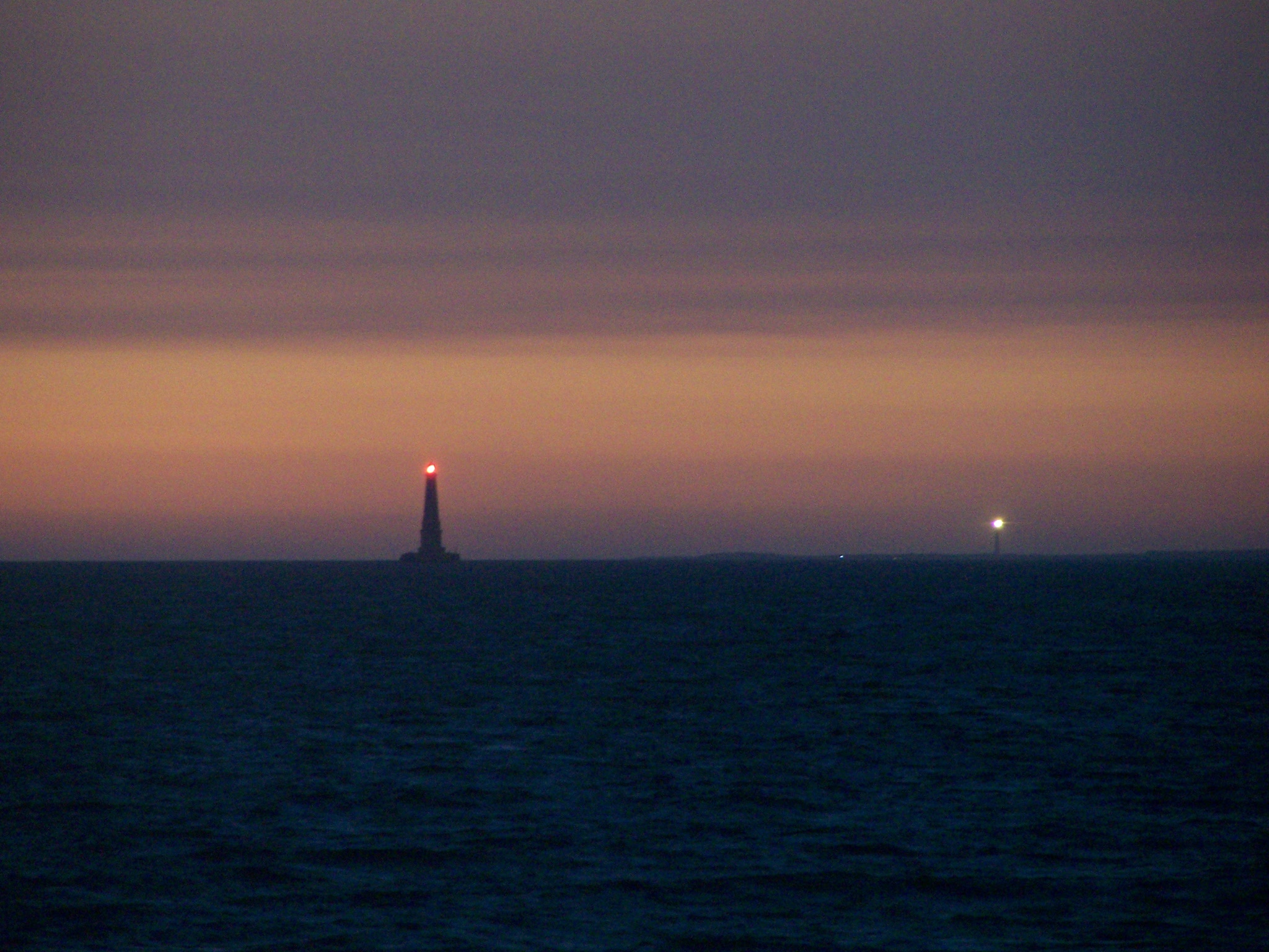 By night, sight on the two lighthouses Phare de Cordouan (on the sea) and Phare de la Coubre (in Charente-Maritime) since the beach of Soulac-sur-Mer in Gironde.